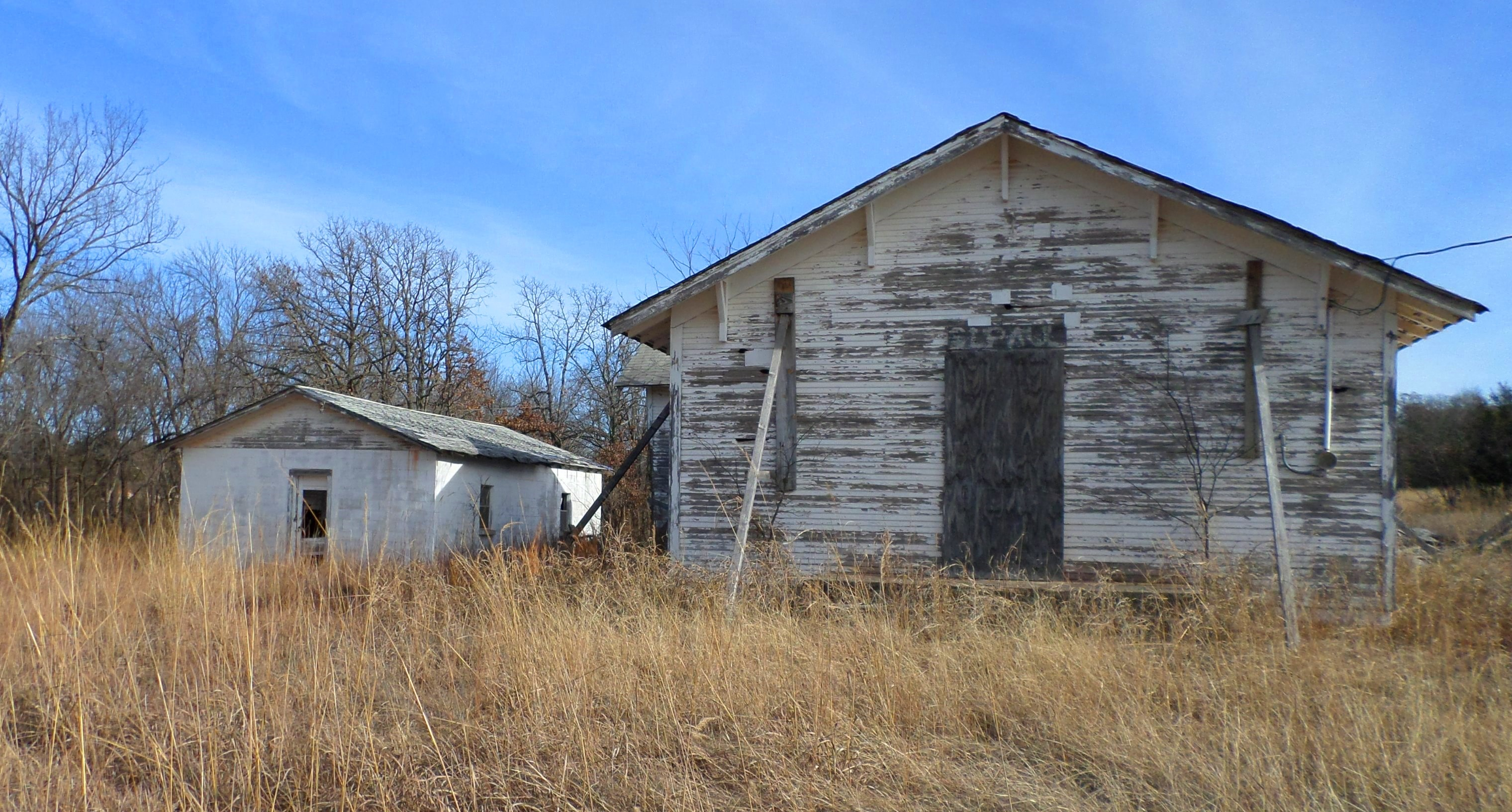 The former St. Paul Baptist Church, located along N3420 Rd near Meeker, OK. The church is listed on the National Register of Historic Places.